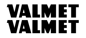 Valmetlogo3